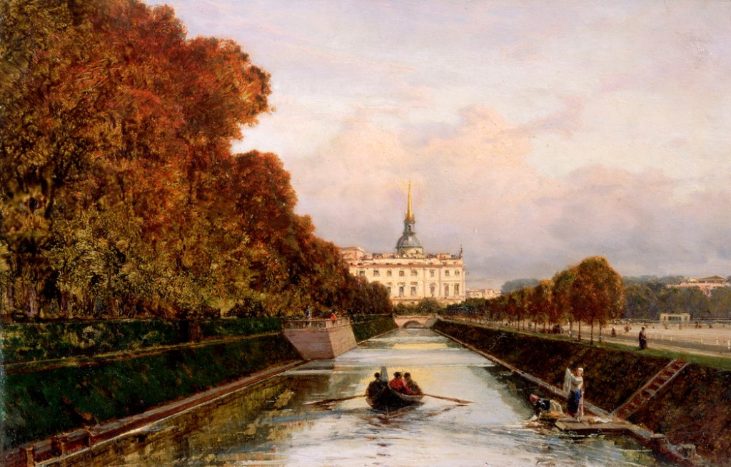 View to Michael's Castle in Petersburg from Lebiazhy Canal